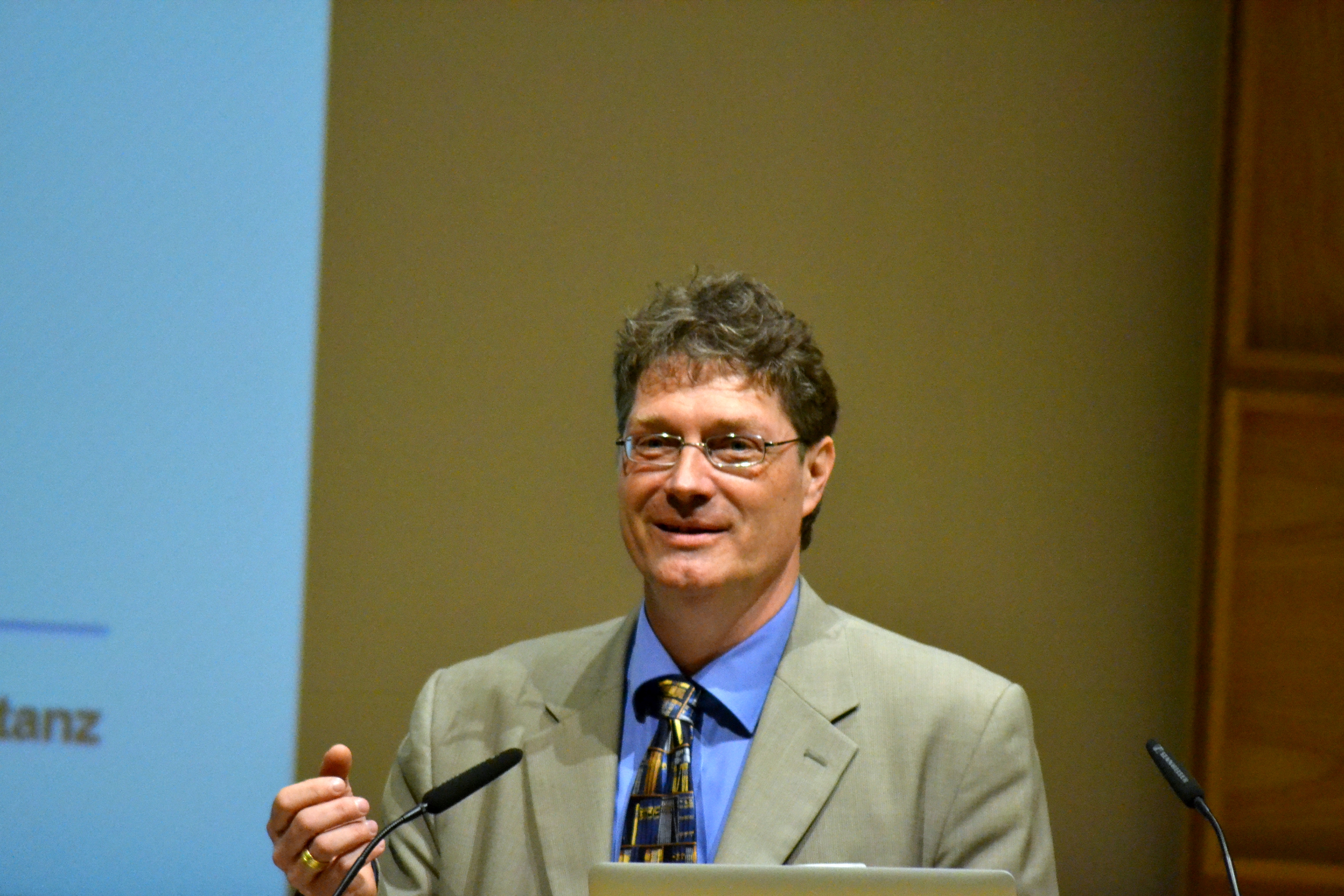 Conference "Die Zukunft der Wissensspeicher: Forschen, Sammeln und Vermitteln im 21. Jahrhundert" ("Future of the knowledge stores") of the University of Konstanz with the Gerda Henkel Stiftung at the Nordrhein-Westfälischen Akademie der Wissenschaften und Künste in Düsseldorf on 5th and 6th of March 2015.